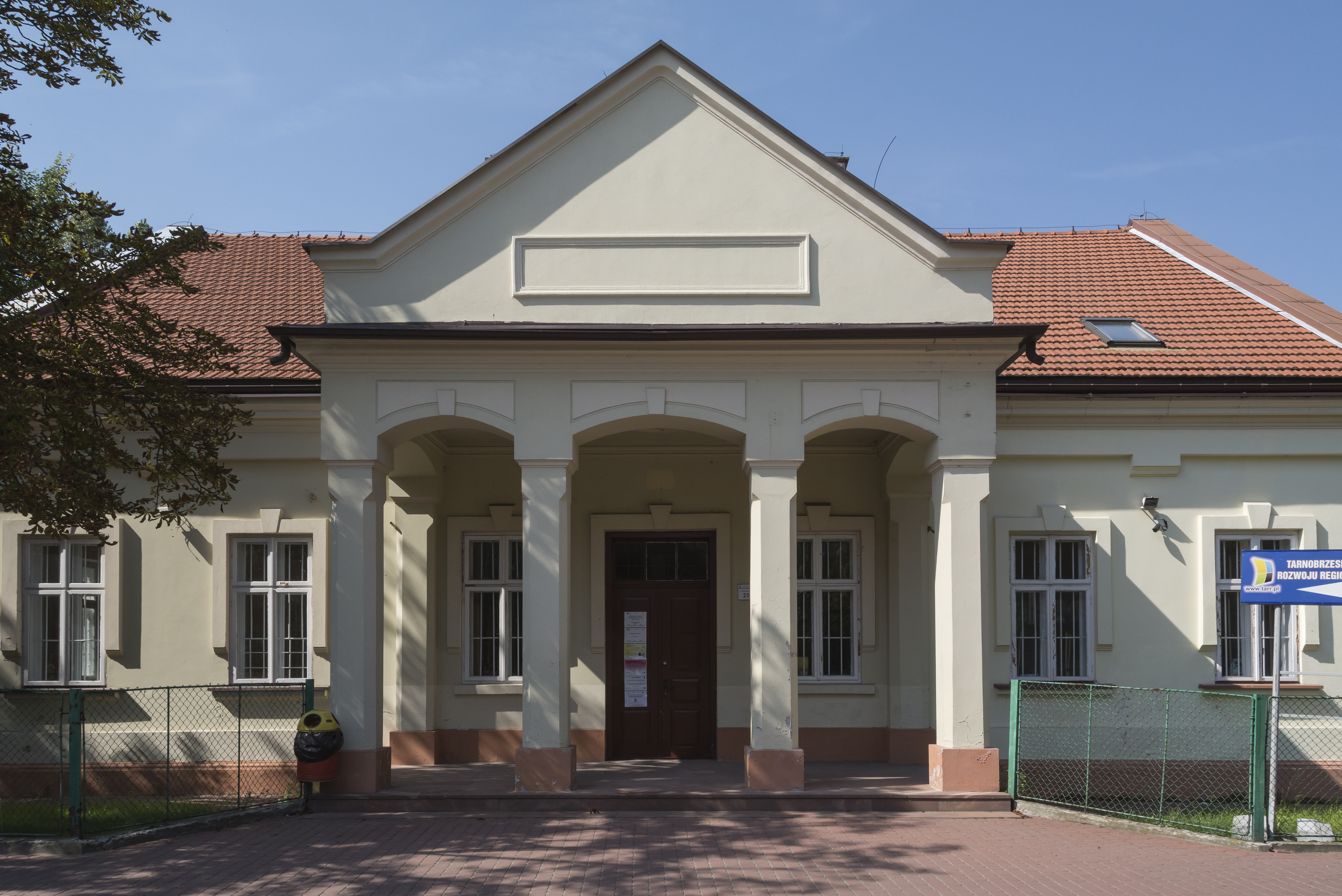 25 Sandomierska Street in Tarnobrzeg